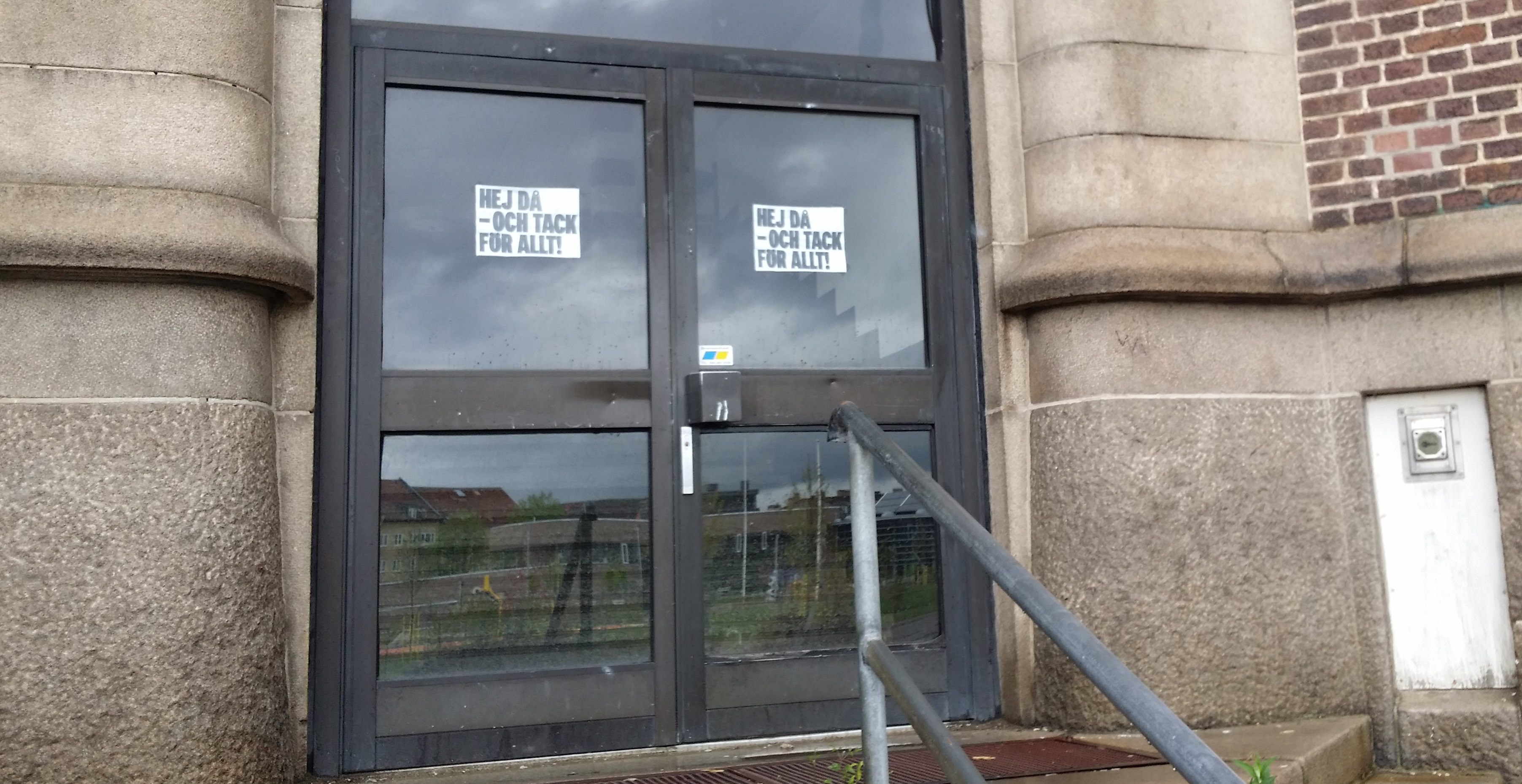 The poster, found at the main entrance to the defunct school called Magnus Stenbocksskolan, reads "Good bye and thanks for everything!"